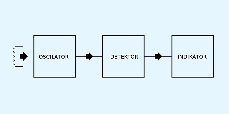 Block diagram